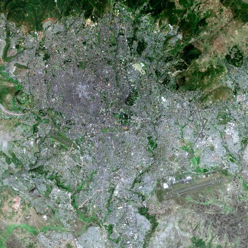 Addis Abeba by SPOT Satellite